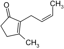 Chemical structure of cinerone